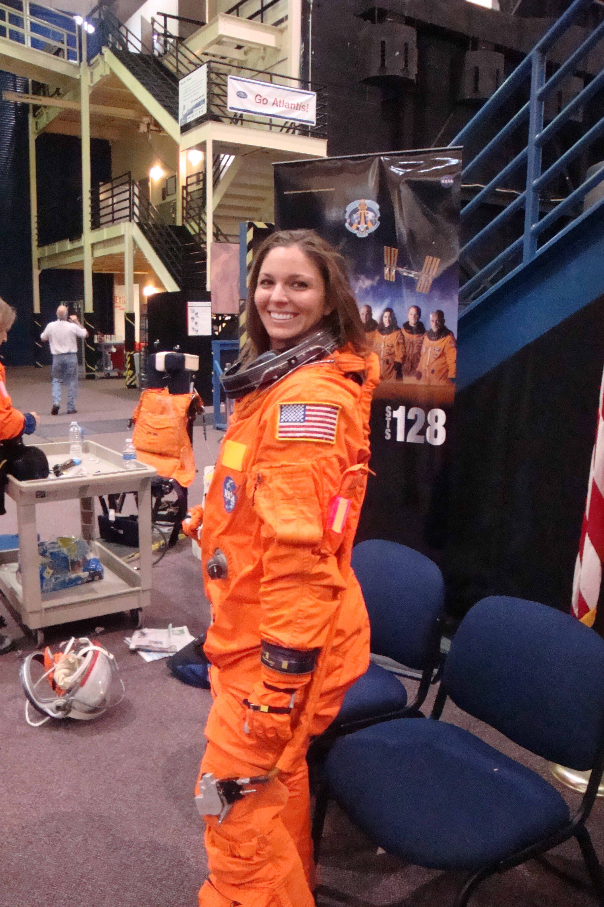 Photo of Amber S Gell